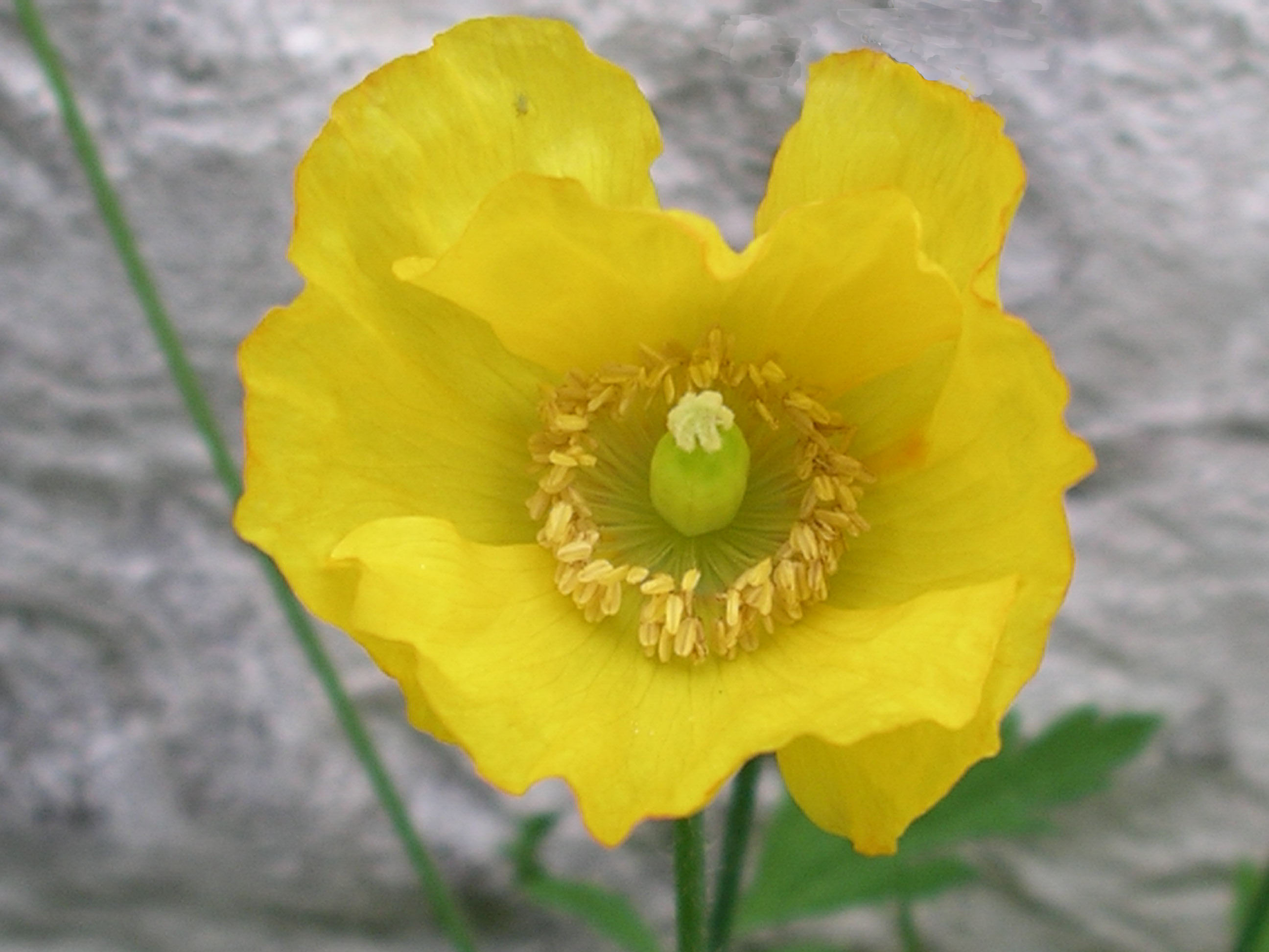 Welsh poppy (Meconopsis cambrica) growing on Anglesey, North Wales, June 2004; yellow poppy; gelber Mohn